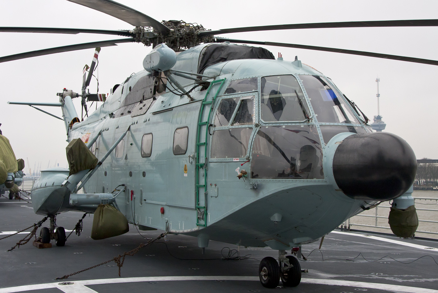 Z8J? It looks like a Super Frélon to me! The Changhe Z8 is the Chinese built version of the French helicopter. The Navy uses them for ASW and SAR. Two were on board the amphibious assault ship Changbai Shan during a visit to the port of Rotterdam. 28 January 2015.